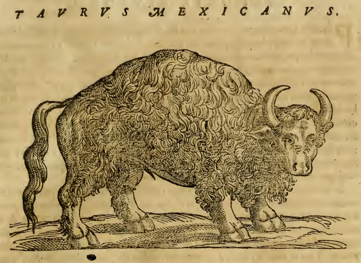 "Taurus Mexicanus" as pictured in Hernández's natural history of Mexico. Linnæus used Hernández's description as the type description for Bos bison.